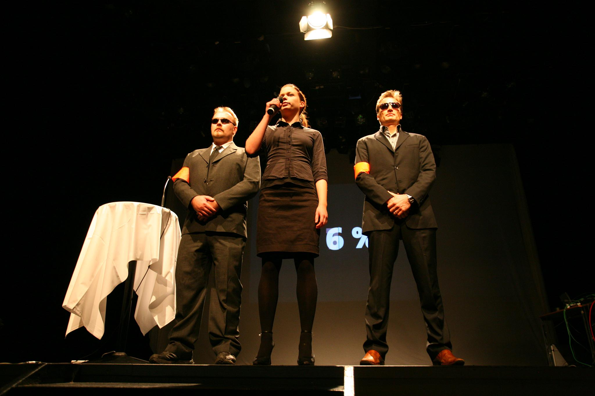 carrot mob